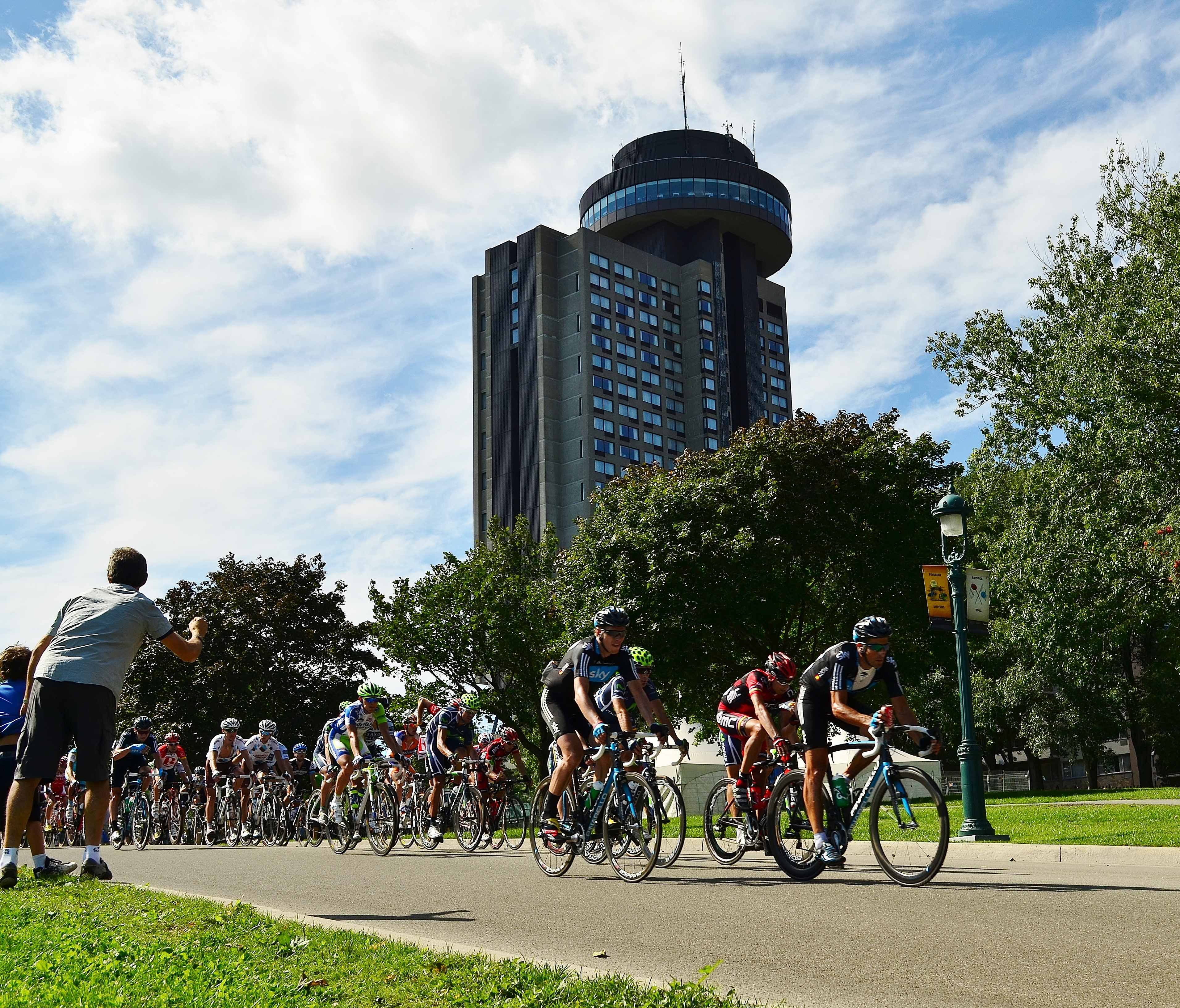 Quebec City's Grand Prix Cycliste 2011 in front of the Hotel Le Concorde